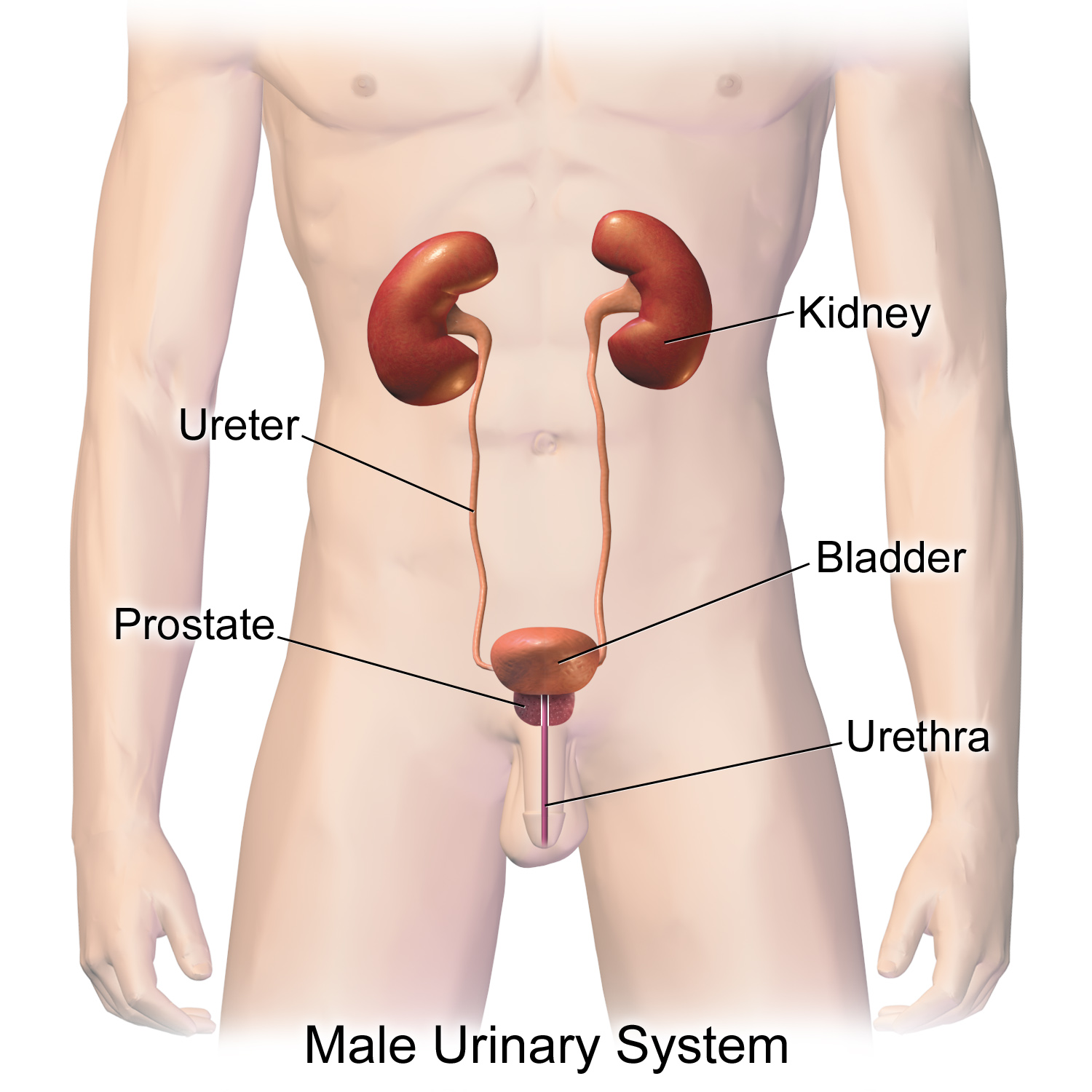 A medical illustration depicting a male's urinary system.